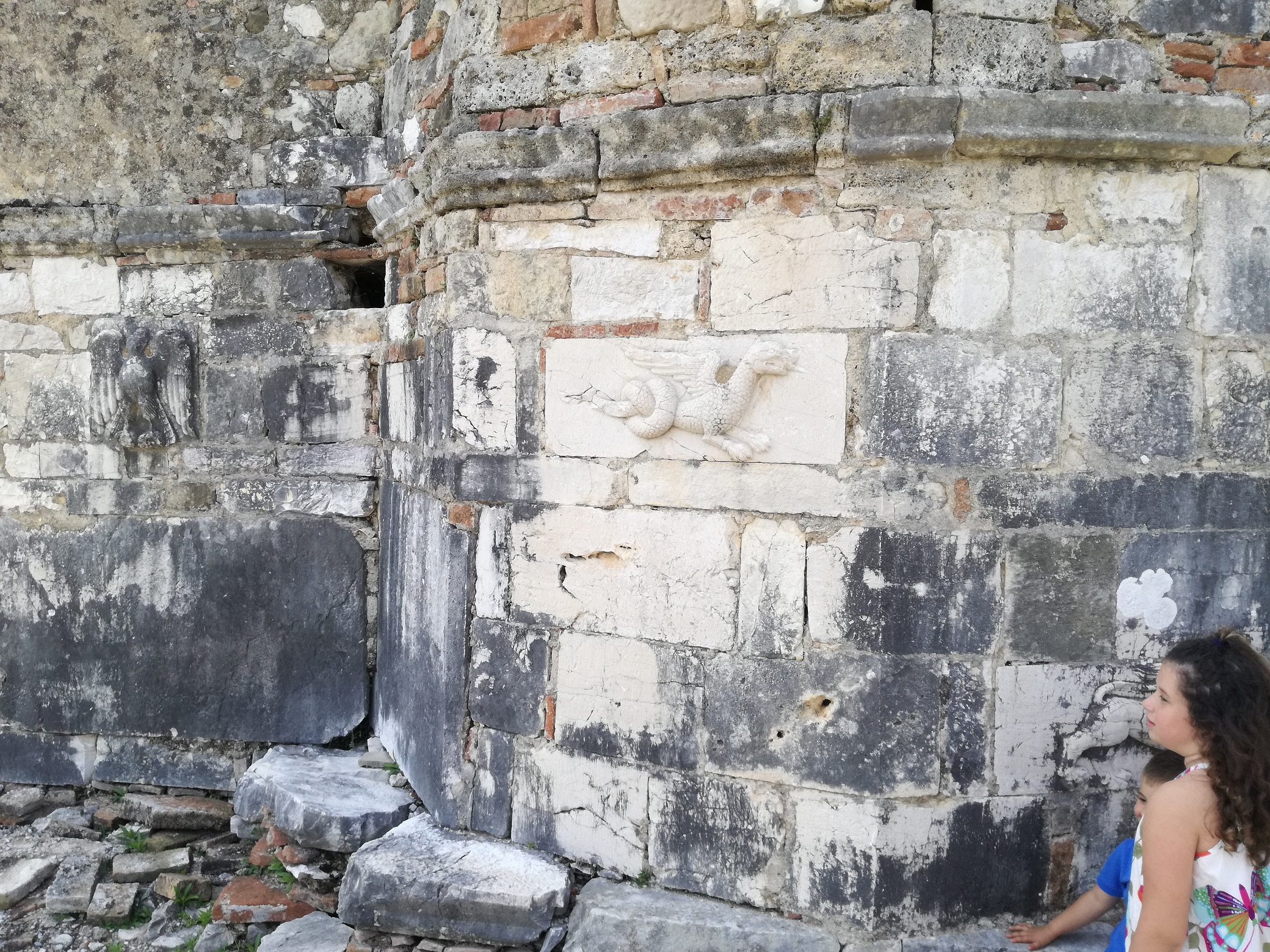 Part of the older temple walls on which Mesopotam Monaster was constructed